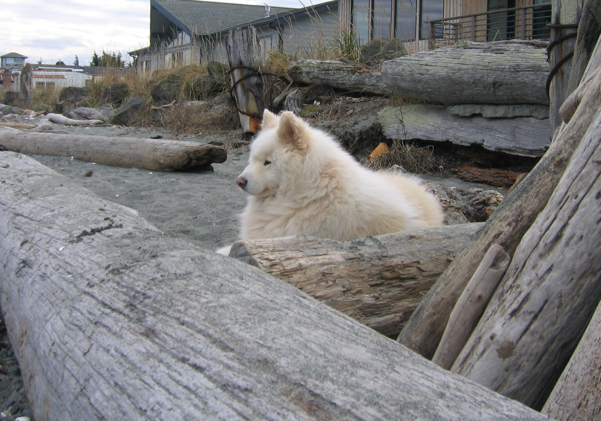 Samoyed male